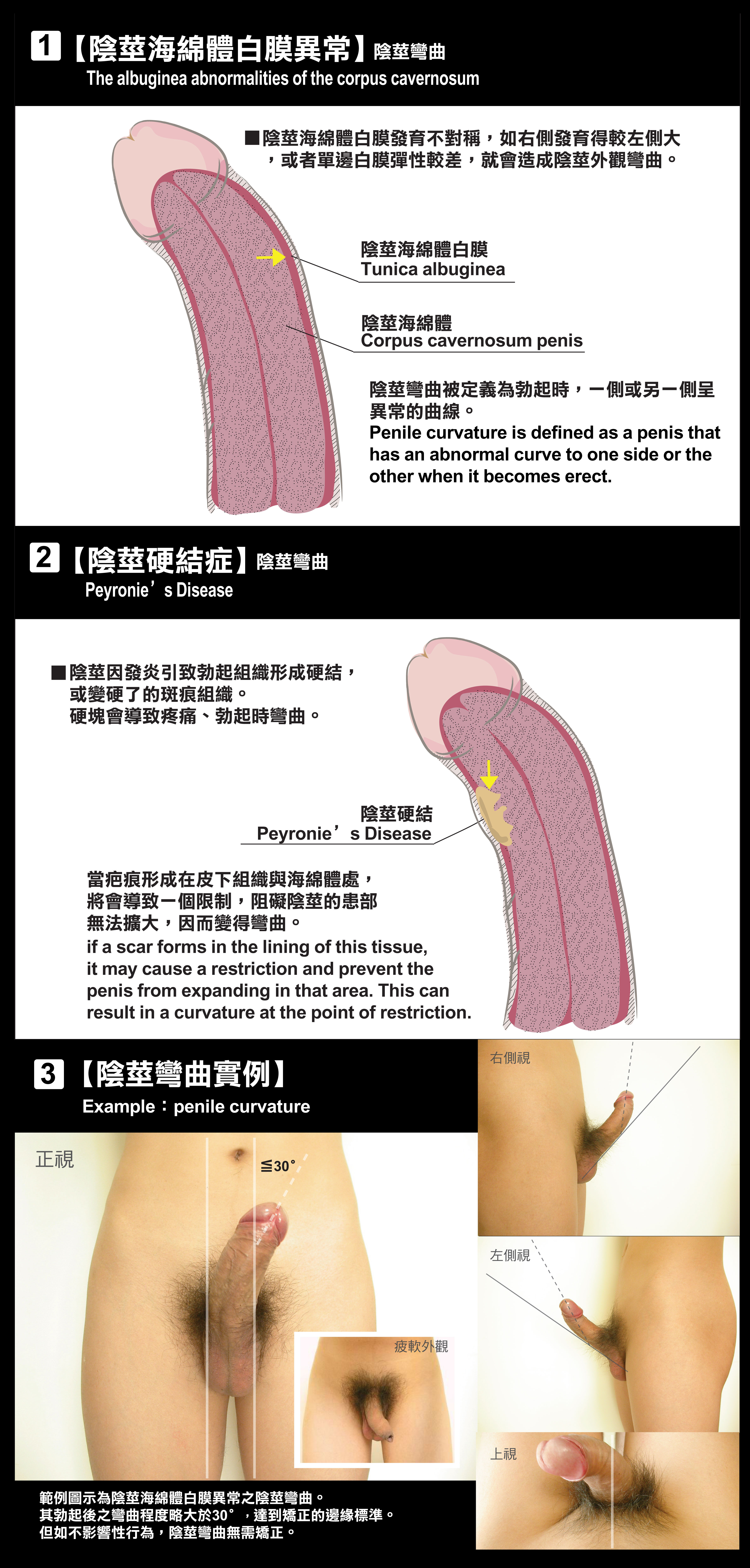 Penile curvature is defined as a penis that has an abnormal curve to one side or the other when it becomes erect. Painter:F.A Photo Gallery:24age Taiwanese